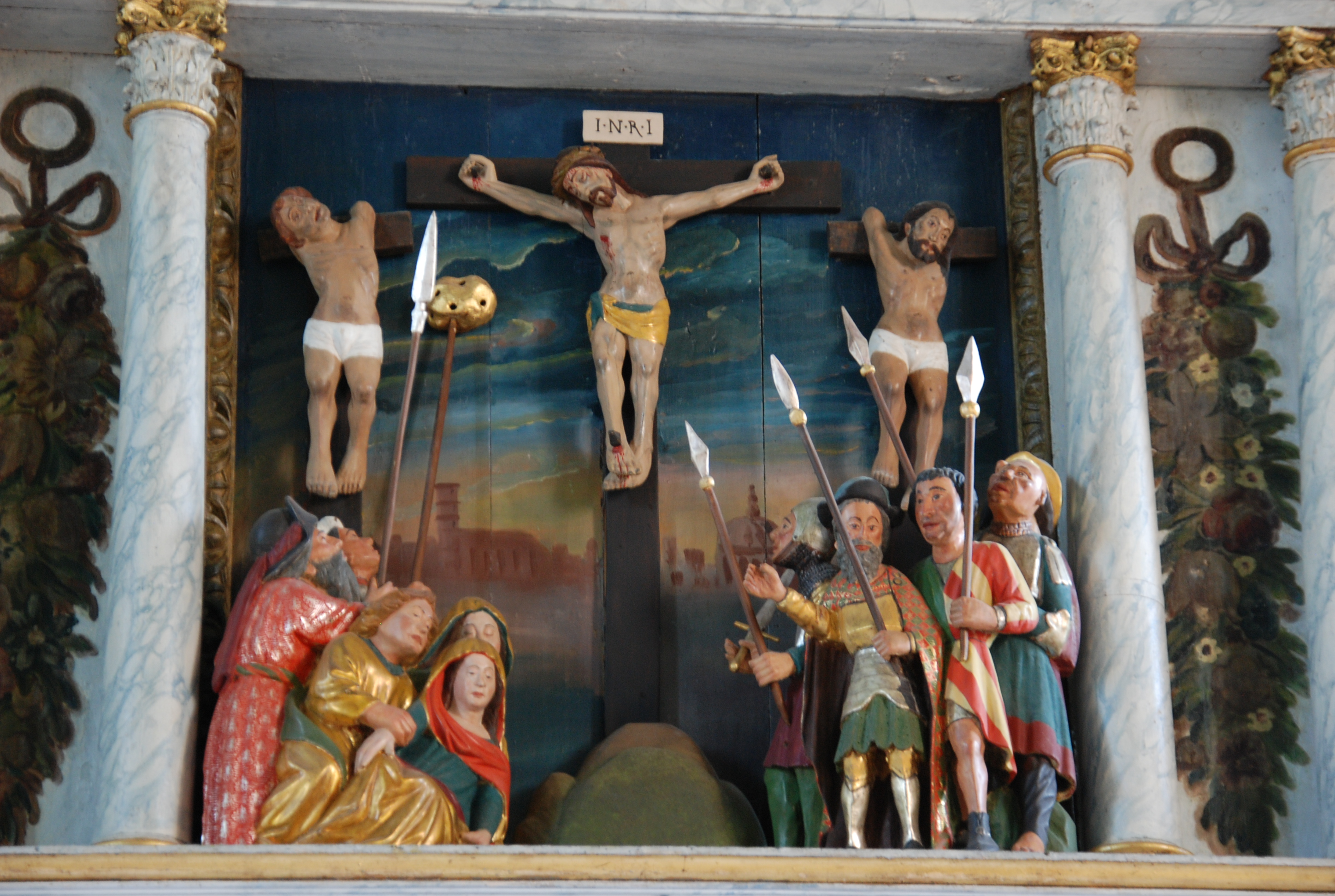 The Evangelical Lutheran Ss. Cosmas and Damian Church of Wiarden in Wangerland (Altar)